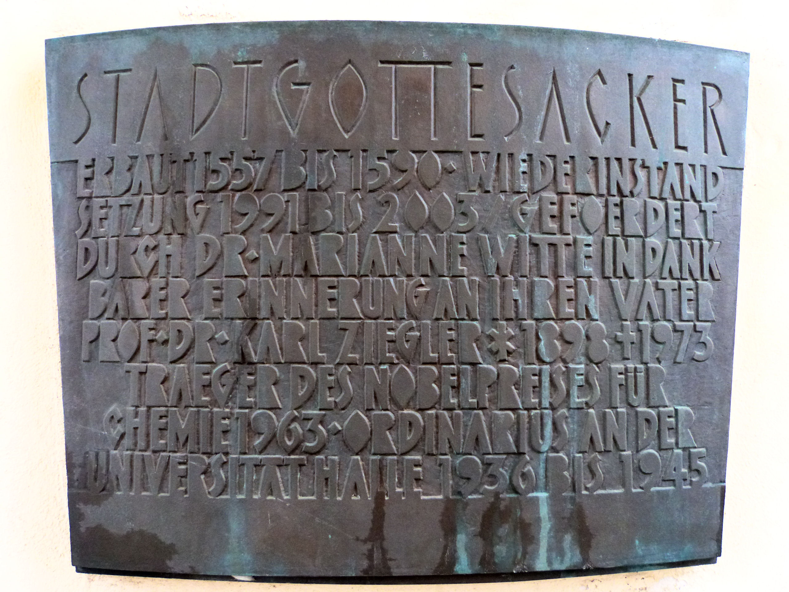 Plaque in the cemetery Stadtgottesacker Halle (Saale)